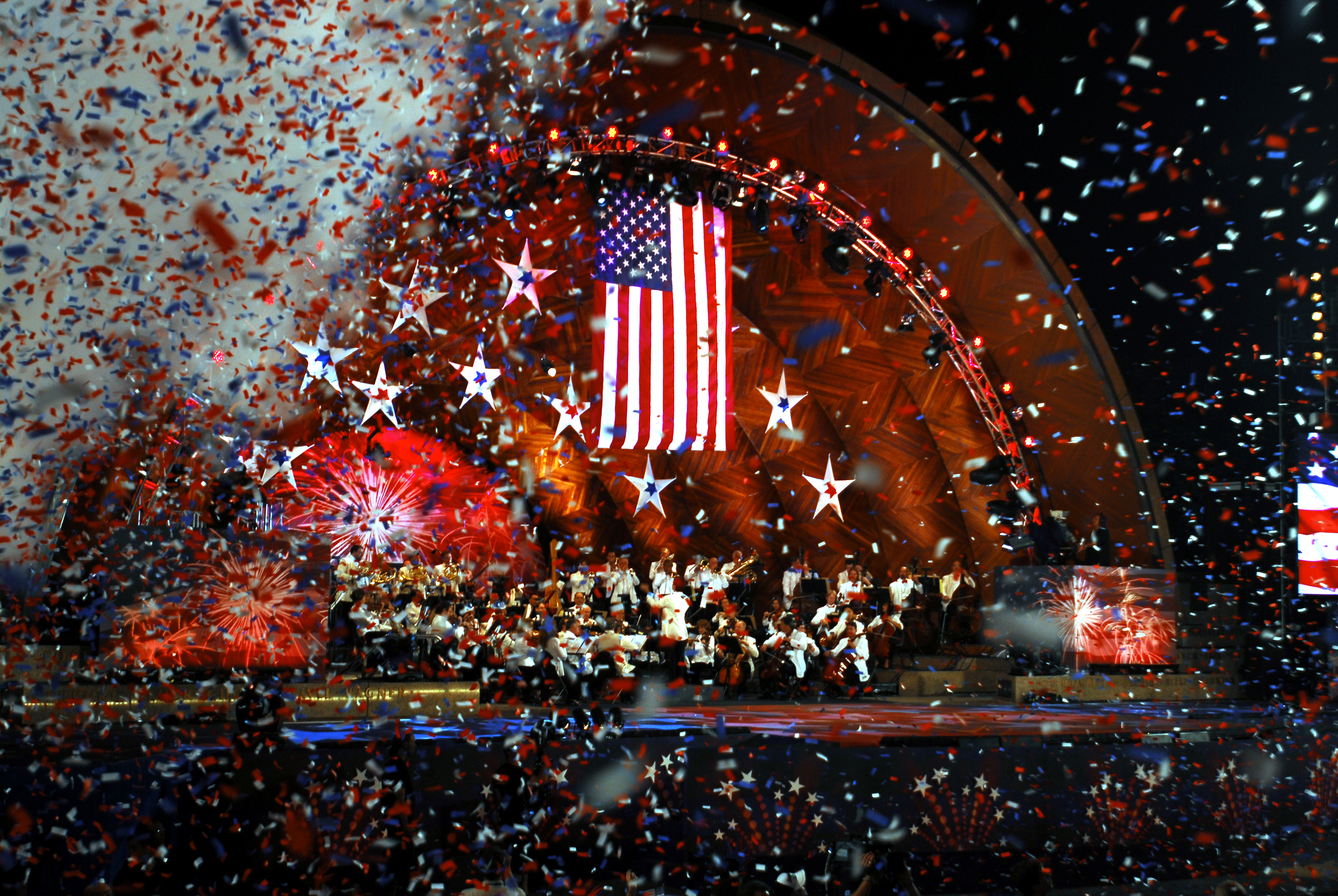 BOSTON (July 4, 2008) Confetti rains down at the completion of the song "Stars and Stripes Forever" during the 35th Boston Pops Orchestra and Fireworks Spectacular. Sailors assigned to the multi-purpose amphibious assault ship USS Bataan (LHD 5) are in Boston participating in the 27th Annual Boston Harborfest 2008, a 6-day long 4th of July festival showcasing our nations colonial and maritime heritage. U.S. Navy photo by Mass Communication Specialist 3rd Class Patrick Gearhiser (Released)